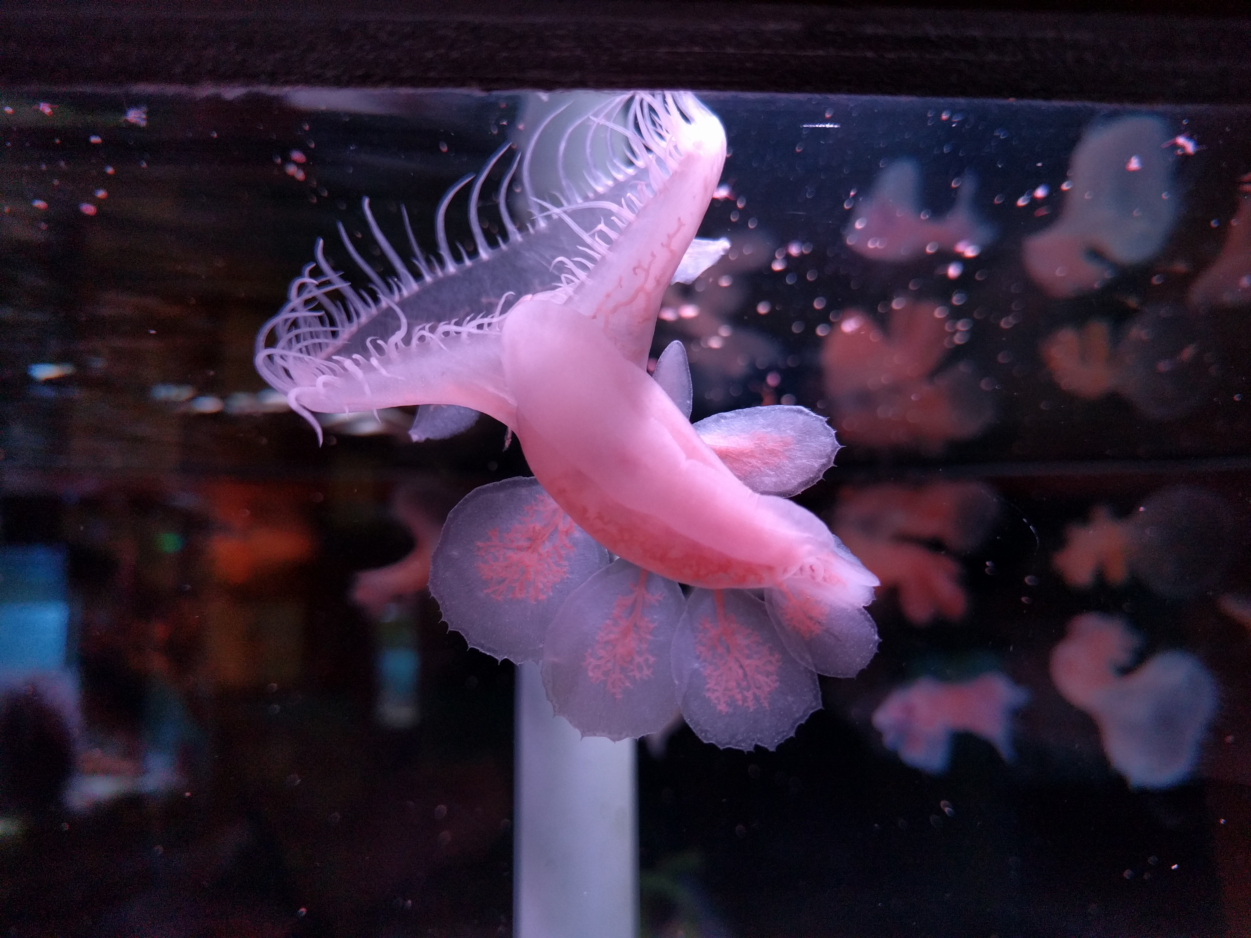 Melibe leonina nudibranch feeding by opening the oral hood to trap prey. Cabrillo Marine Aquarium, San Pedro, California.